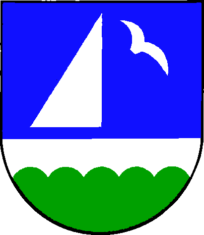 Coat of arms of the former Amt (county) Schlei in Schleswig-Holstein, Germany.